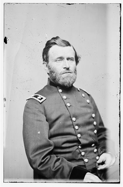 Portrait of Maj. Gen. Ulysses S. Grant, officer of the Federal Army